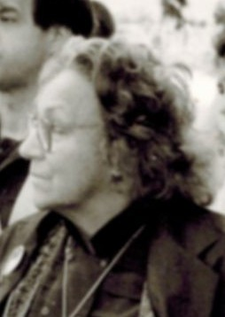 Rosalinde Ossietzky-Palm, daughter of Carl von Ossietzky, peace nobel price winner 1938